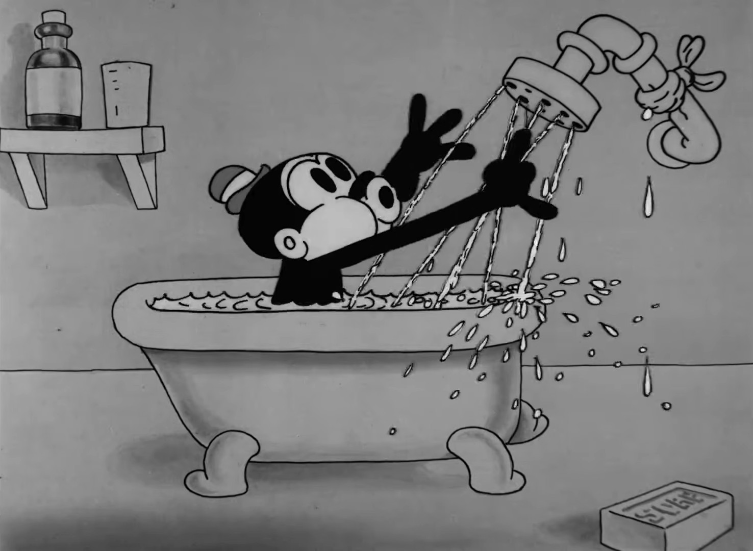 Still from "Sinkin' in the Bathtub" (1930)